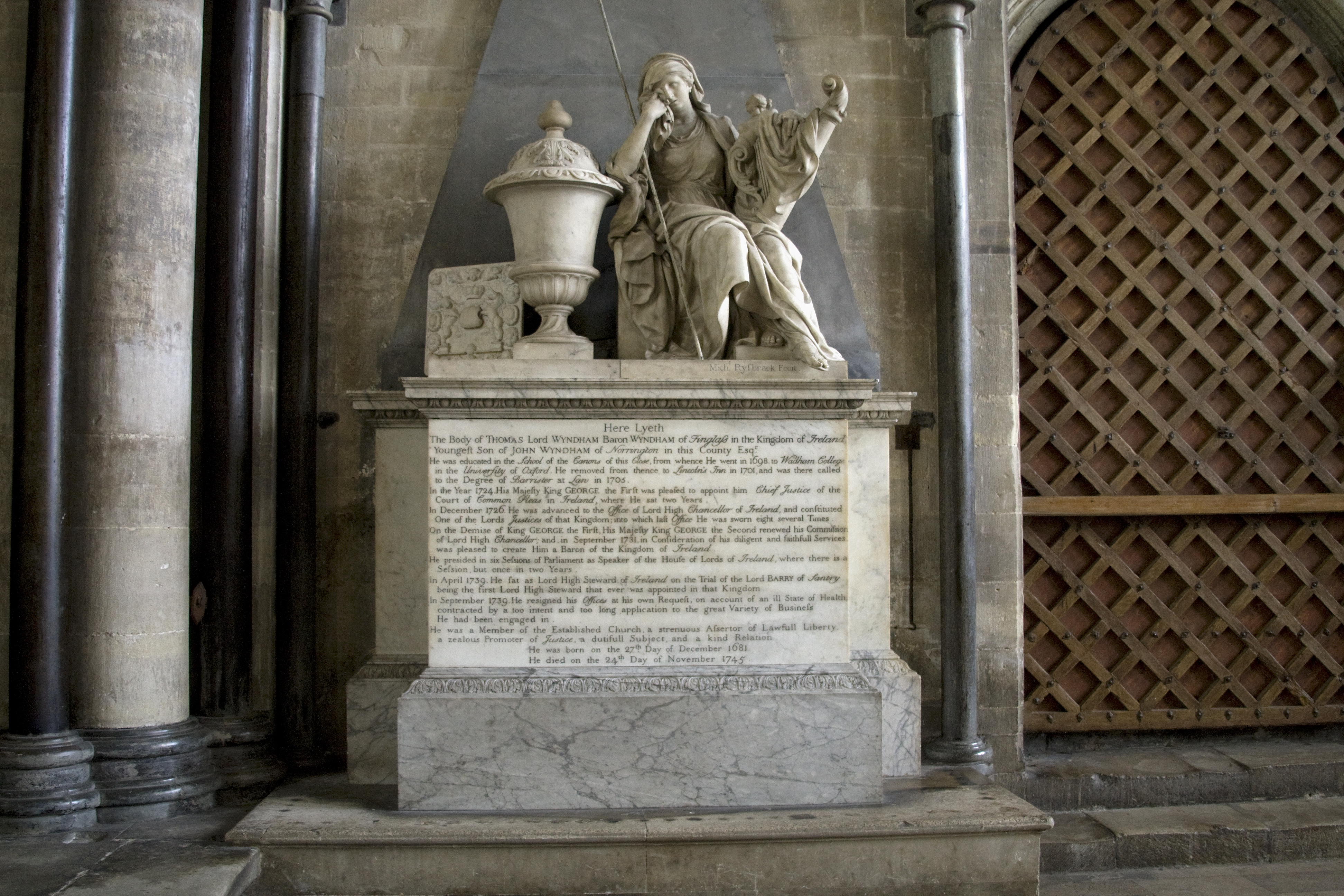 Tomb of Thomas, Lord Wyndham inside Salisbury Cathedral